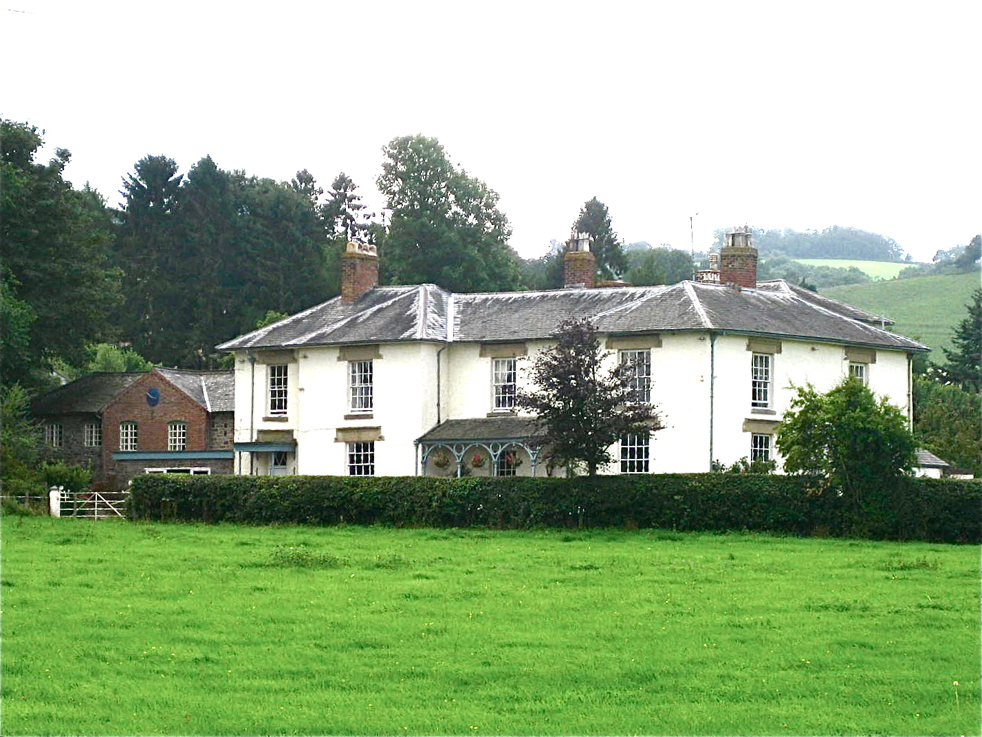 Llandyssil RECTORY. 1812-14 by Joseph Bromfield. An attractive and well-preserved Regency design. Stuccoed, with hipped roofs and hoodmoulded windows. The original front was of three bays, that to the r. advanced. The low hip-roofed tower to the rear gives the air of a Picturesque Tuscan villa. In 1865, the l. range was added to match by Thomas Garland, clerk of works to T.H. Wyatt. He also renewed the veranda, keeping the original iron stantions, but adding wooden circles in the spandrels of the arcade.